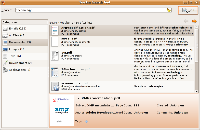 Screenshot of Tracker.